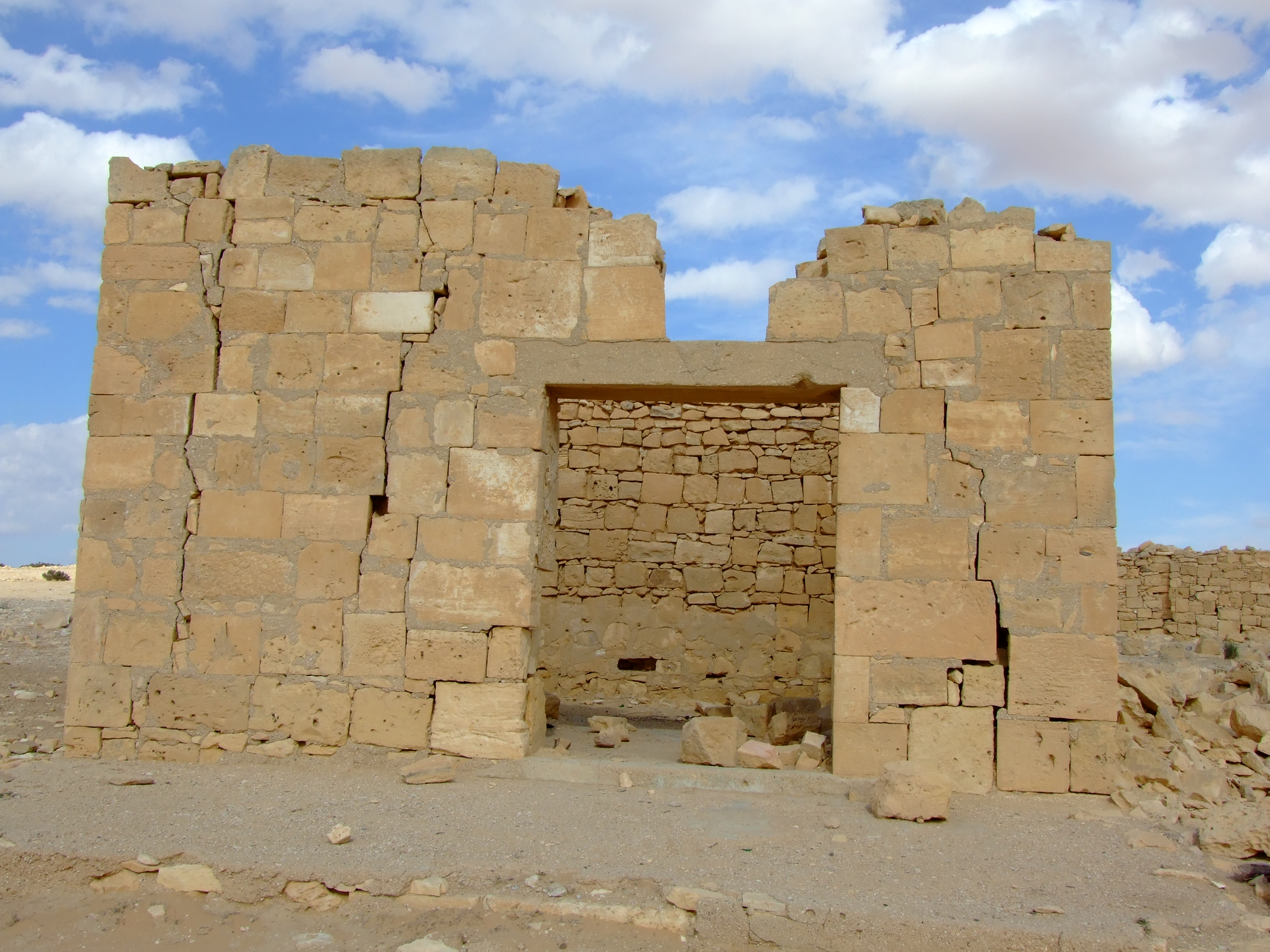 A house in Haluza / Khalasa, probably mandate period because of the use of concrete.